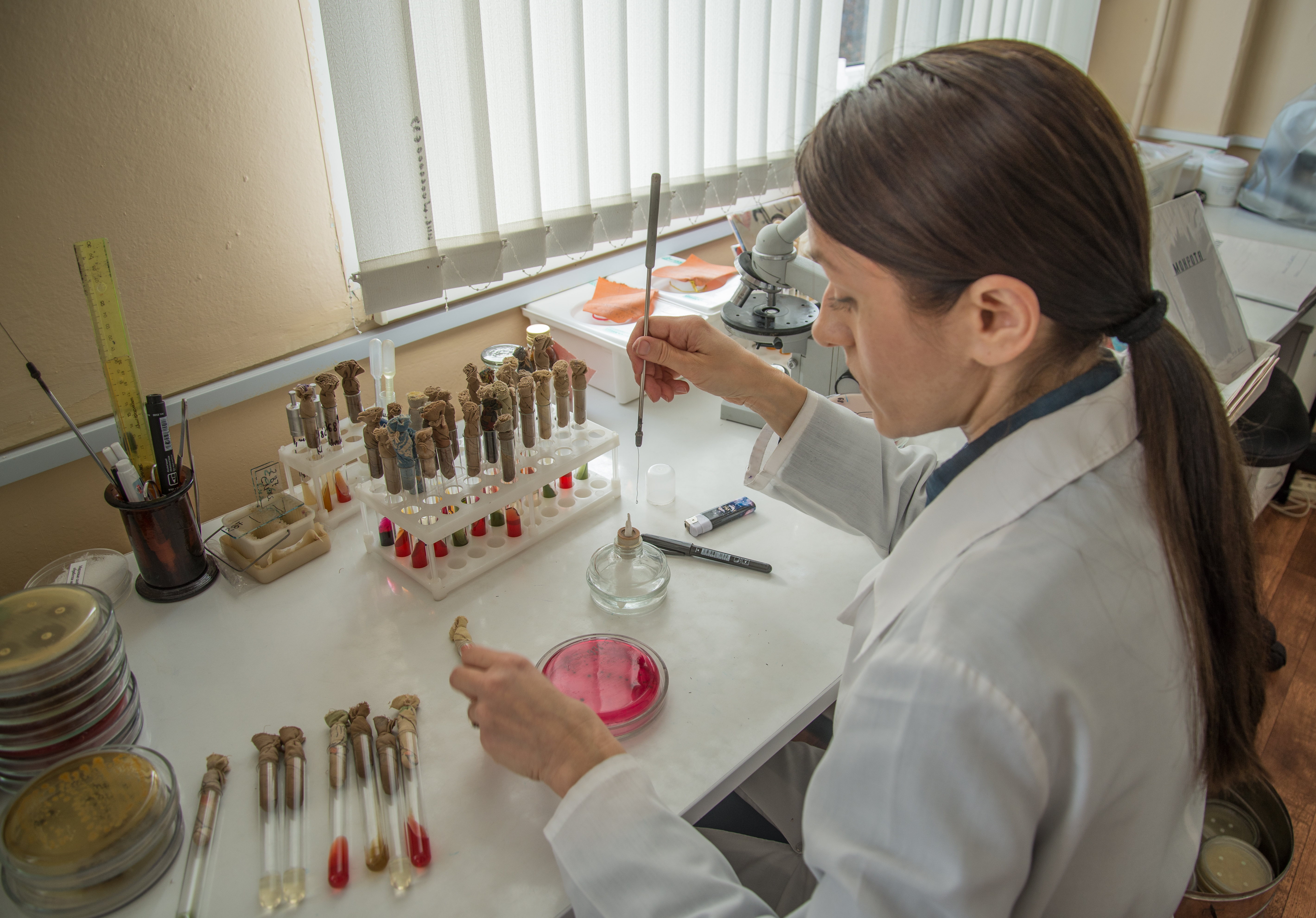 Scientist conducting plating material on the selective environment for the further typing of isolated microorganisms